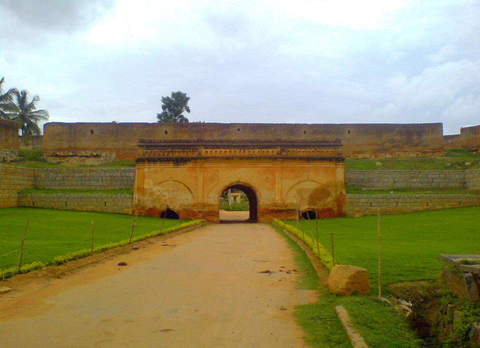 Devanahalli fort entrance picture.